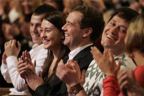 Dmitry Medvedev at the popular Russian TV show KVN